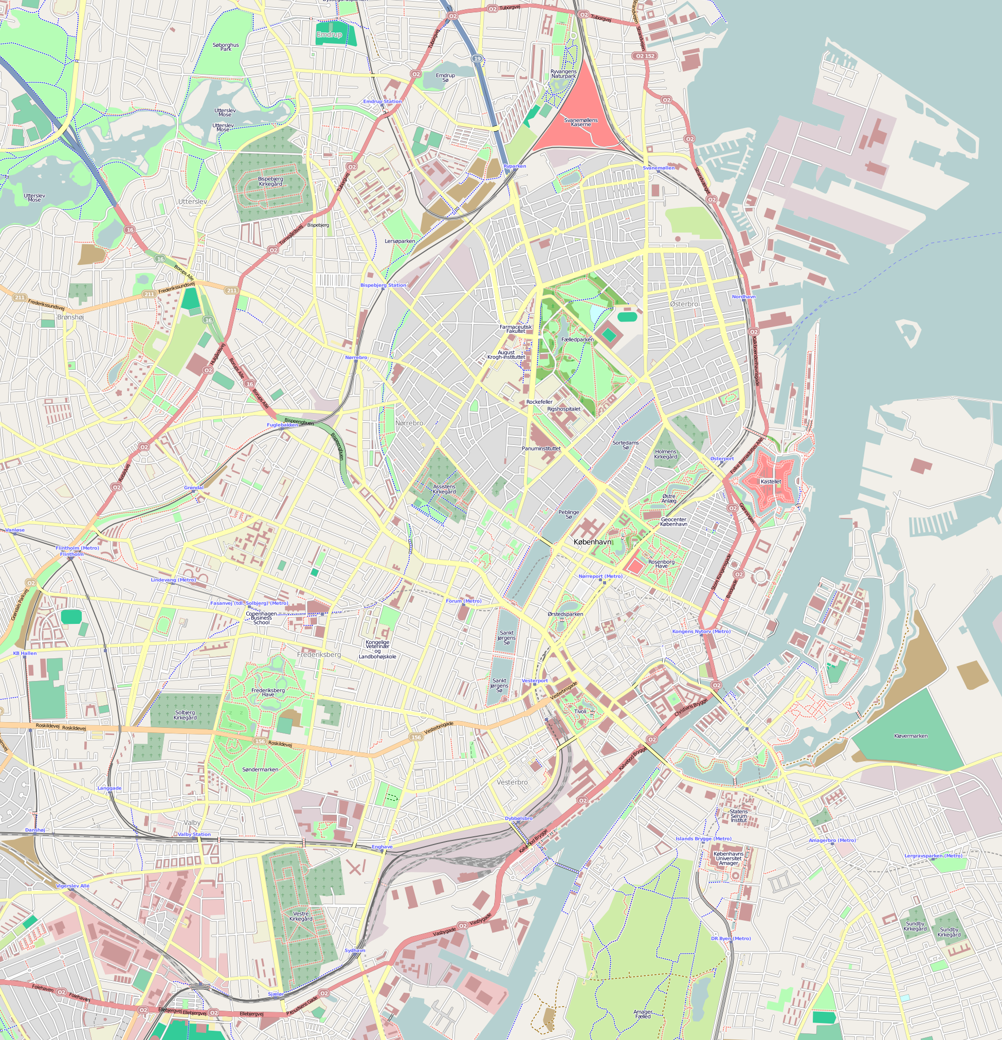 Map of central Copenhagen